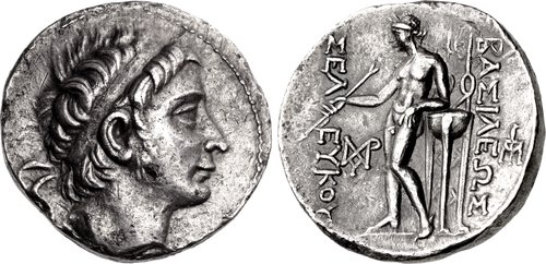 Tetradrachm. Seleukeia on the Tigris mint. Diademed head right / Apollo Delphios.